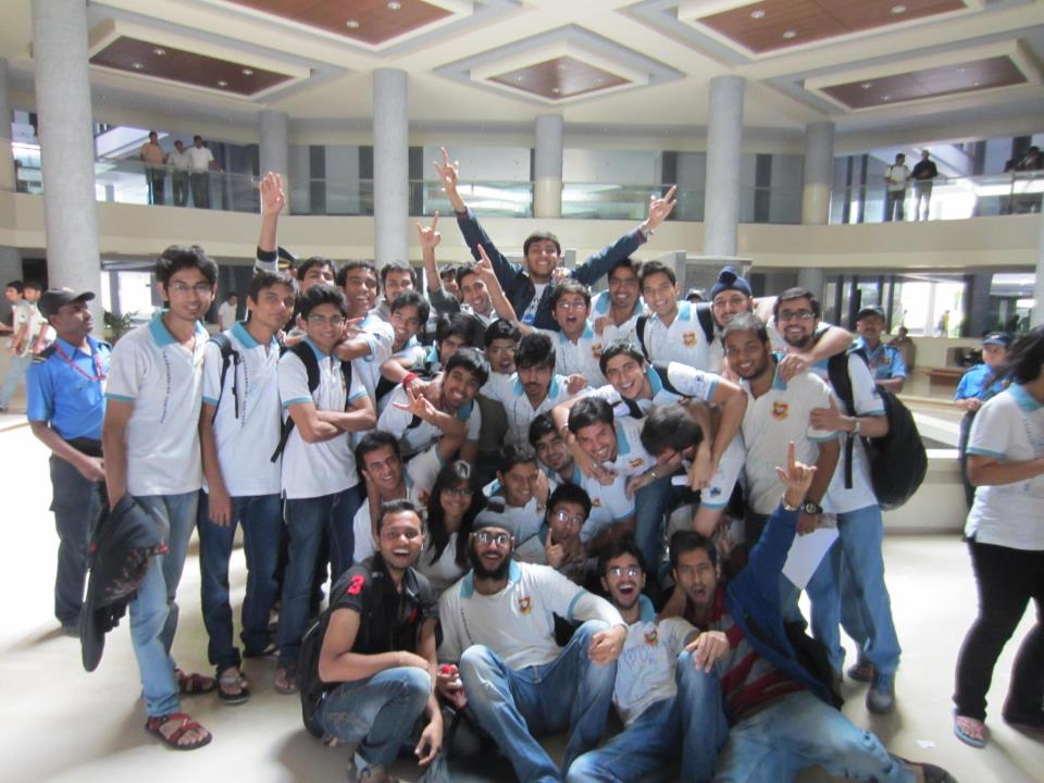 students of nmims